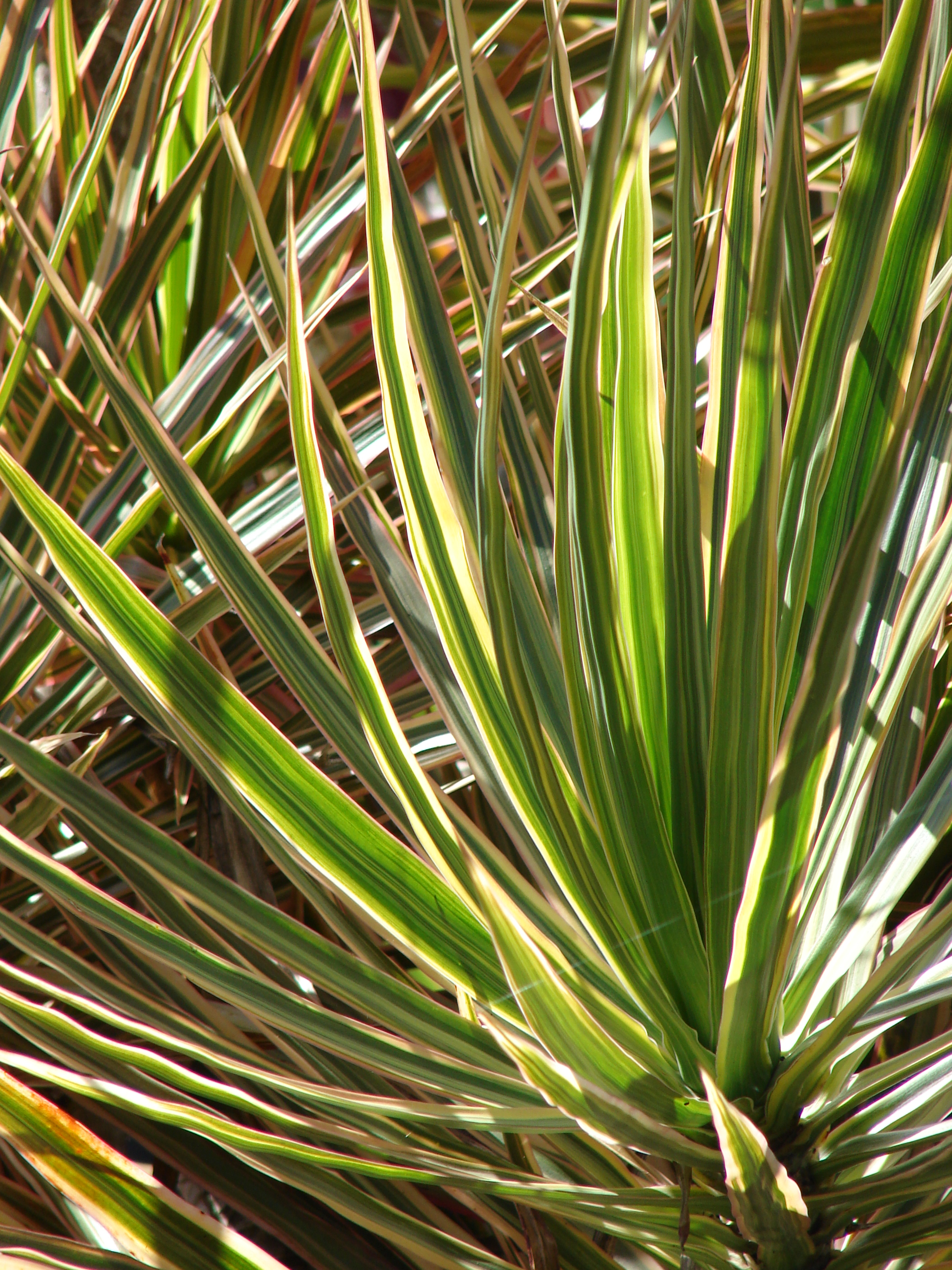 Dracaena marginata (variegated leaves). Location: Maui, Haiku